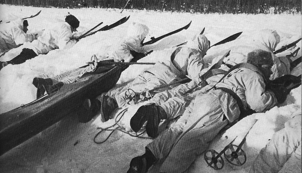 Finnish soldiers during the Winter War.